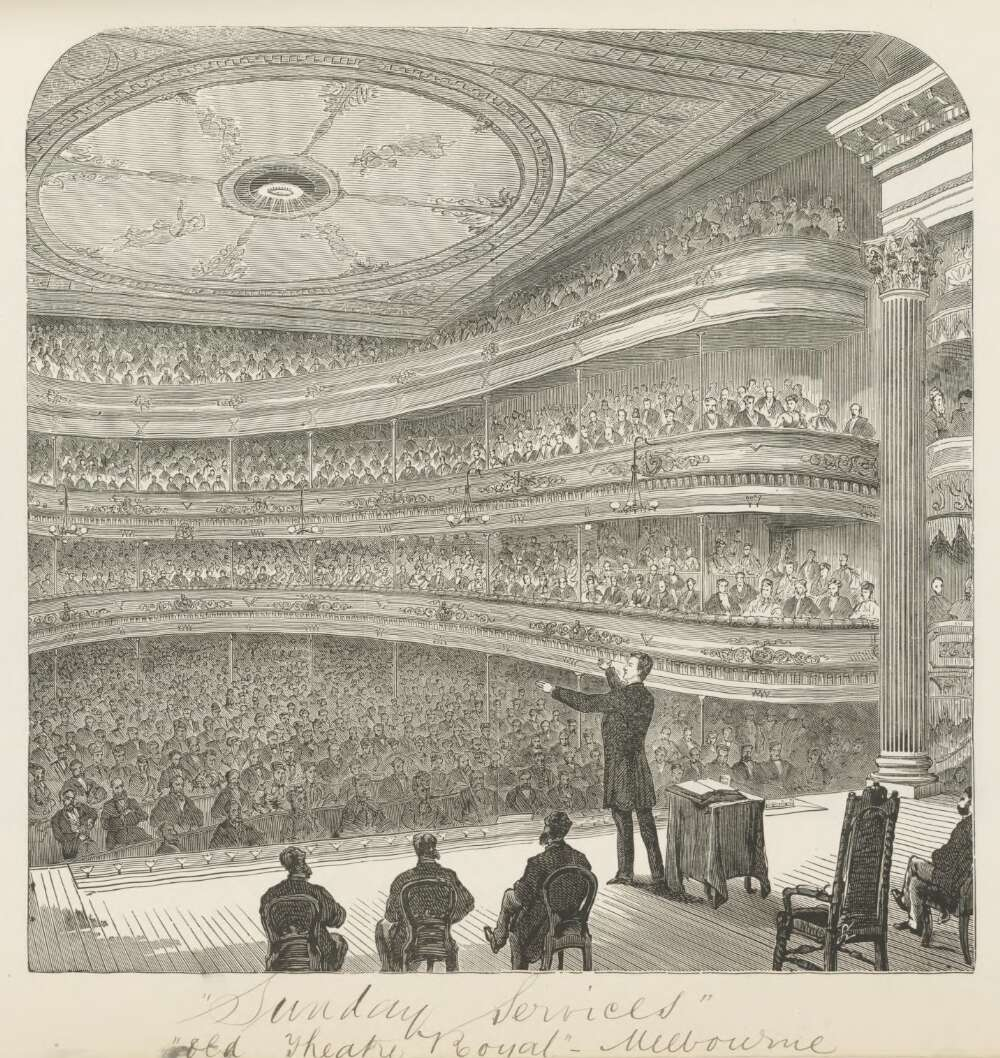 Sunday services, old Theatre Royal, circa 1873. Given the uncertainly about the date, it may be the theatre that burned down in 1872 or the one that replaced it.